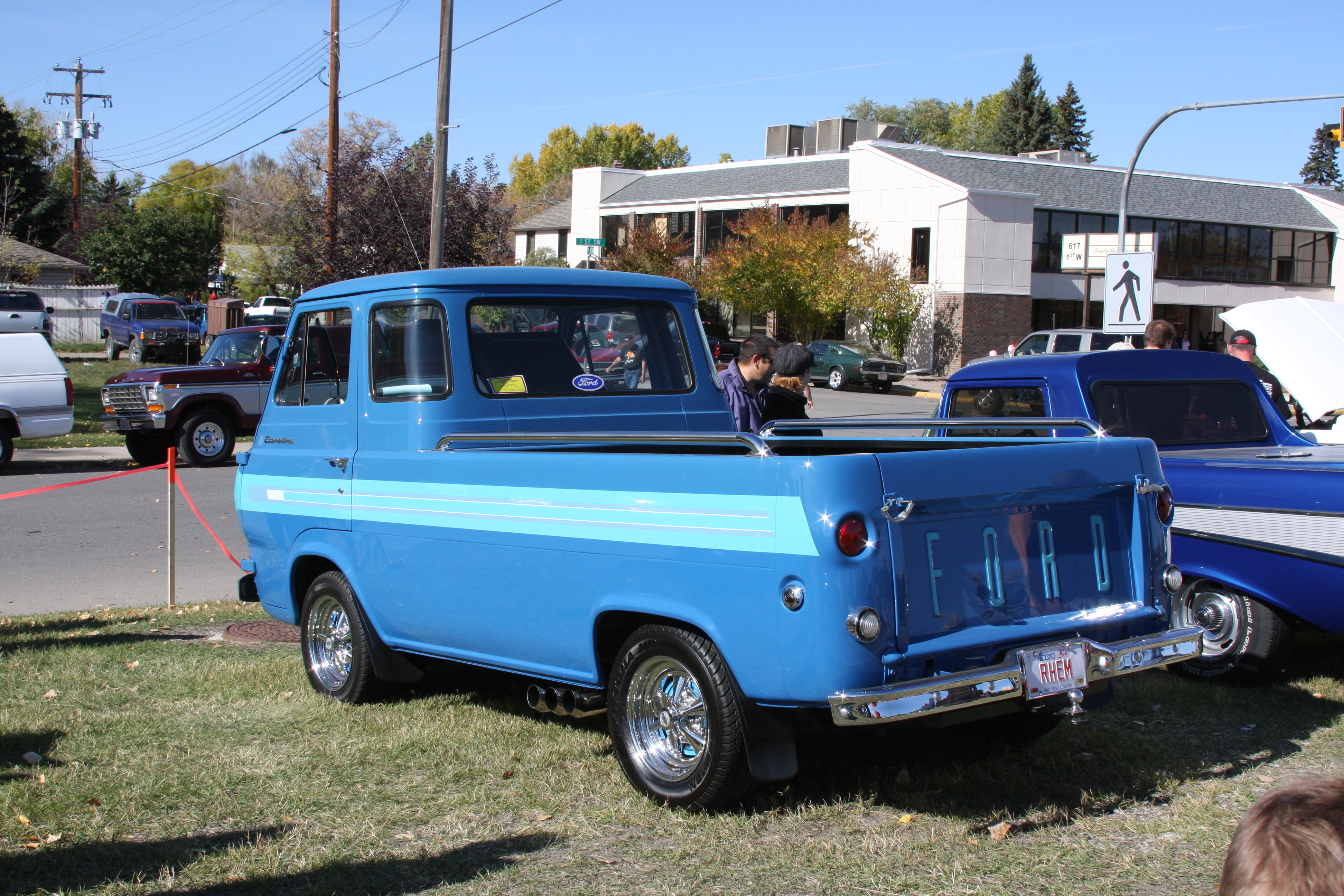 Ford Econoline Truck